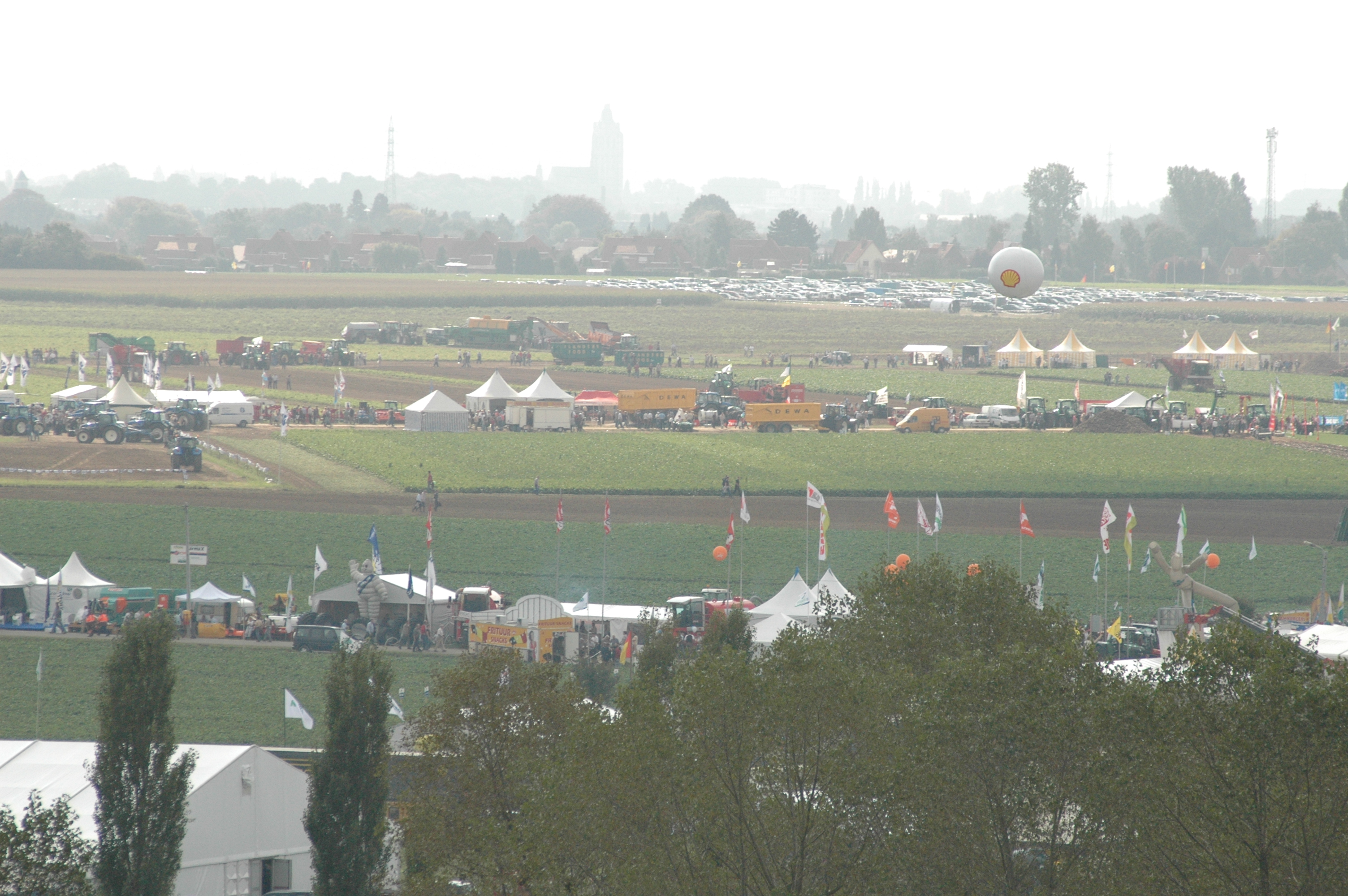 Werktuigendagen 2005, Oudenaarde, East Flanders, Belgium; Sint-Walburgakerk's tower located in the city of Oudenaarde is visible in the background